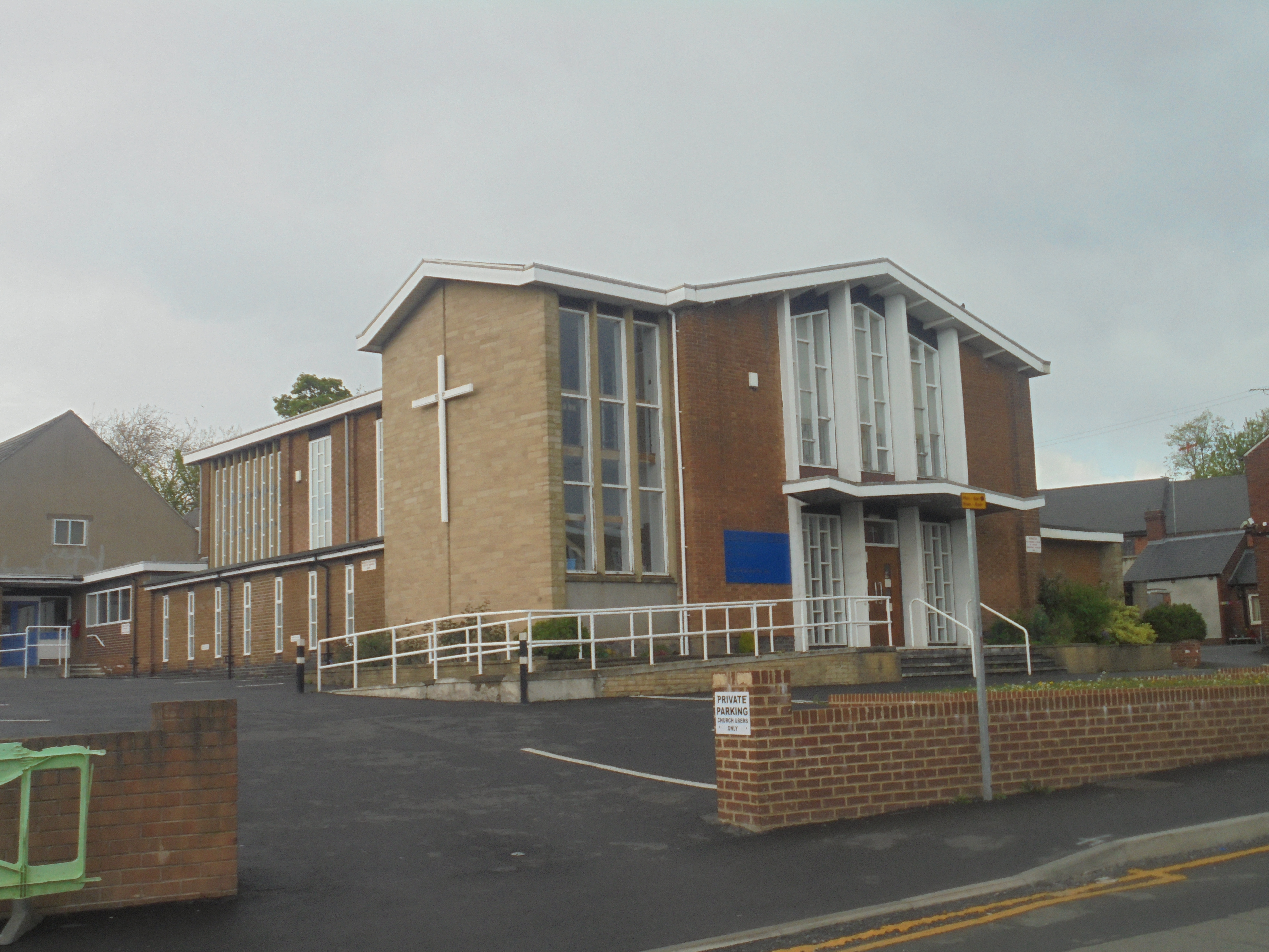 Micklegate Methodist Church, Pontefract, West Yorkshire. Taken on the afternoon of Thursday the 25th of April 2019.